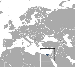 Flower's Shrew (Crocidura floweri) range